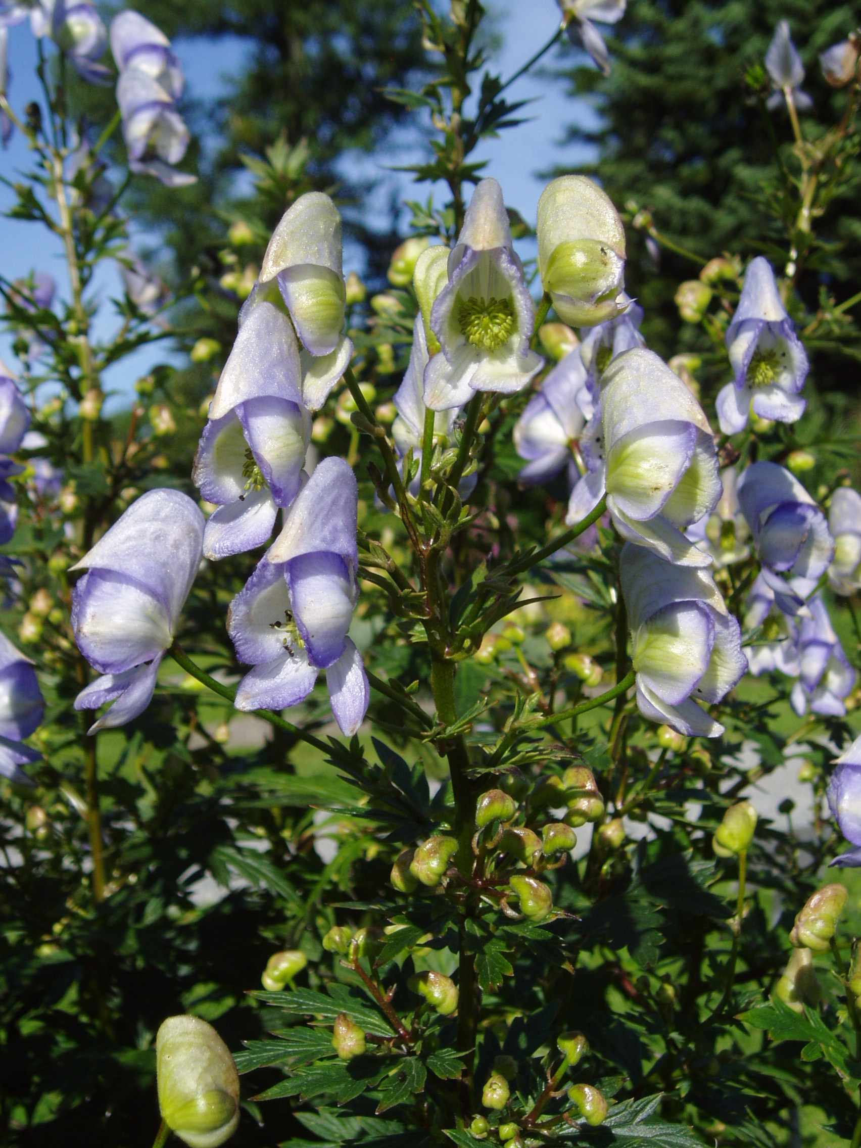 Species of wolf's bane Aconitum paniculigerum var. wulingense (syn. Aconitum tokii), Bergianska trädgården, Stockholm